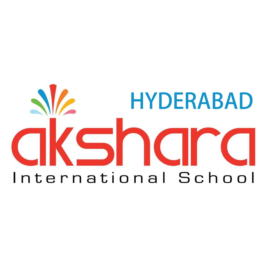 Akshara International School Logo